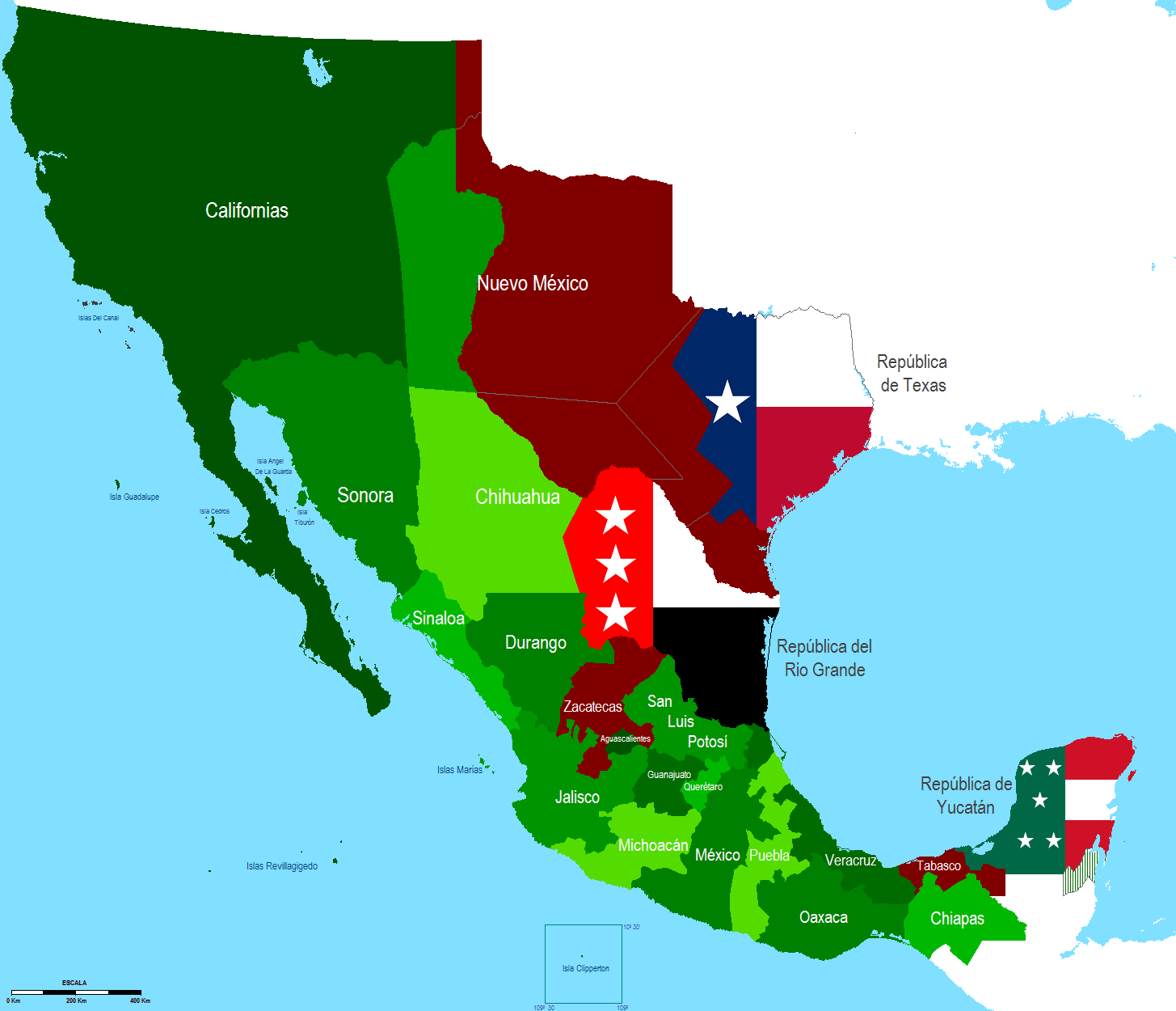 Map of the Central Republic (1836-1846) with the changes enacted in the Seven Constitutional Laws and separatist movements generating by the dissolution of the Federation.